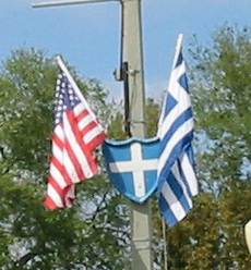 Lamp post with American and Greek Flags. Tarpon Springs, Florida. Photograph by J. Williams (Mar. 18, 2005).